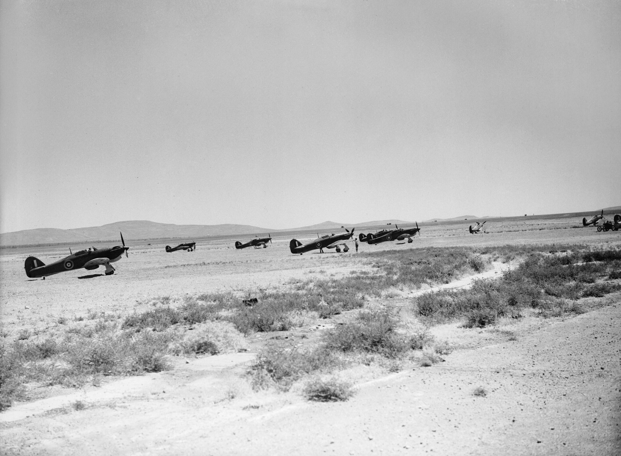 Hawker Hurricanes of No. 80 Squadron RAF refuelling at Rosh Pinna, Palestine, near the Syrian border.